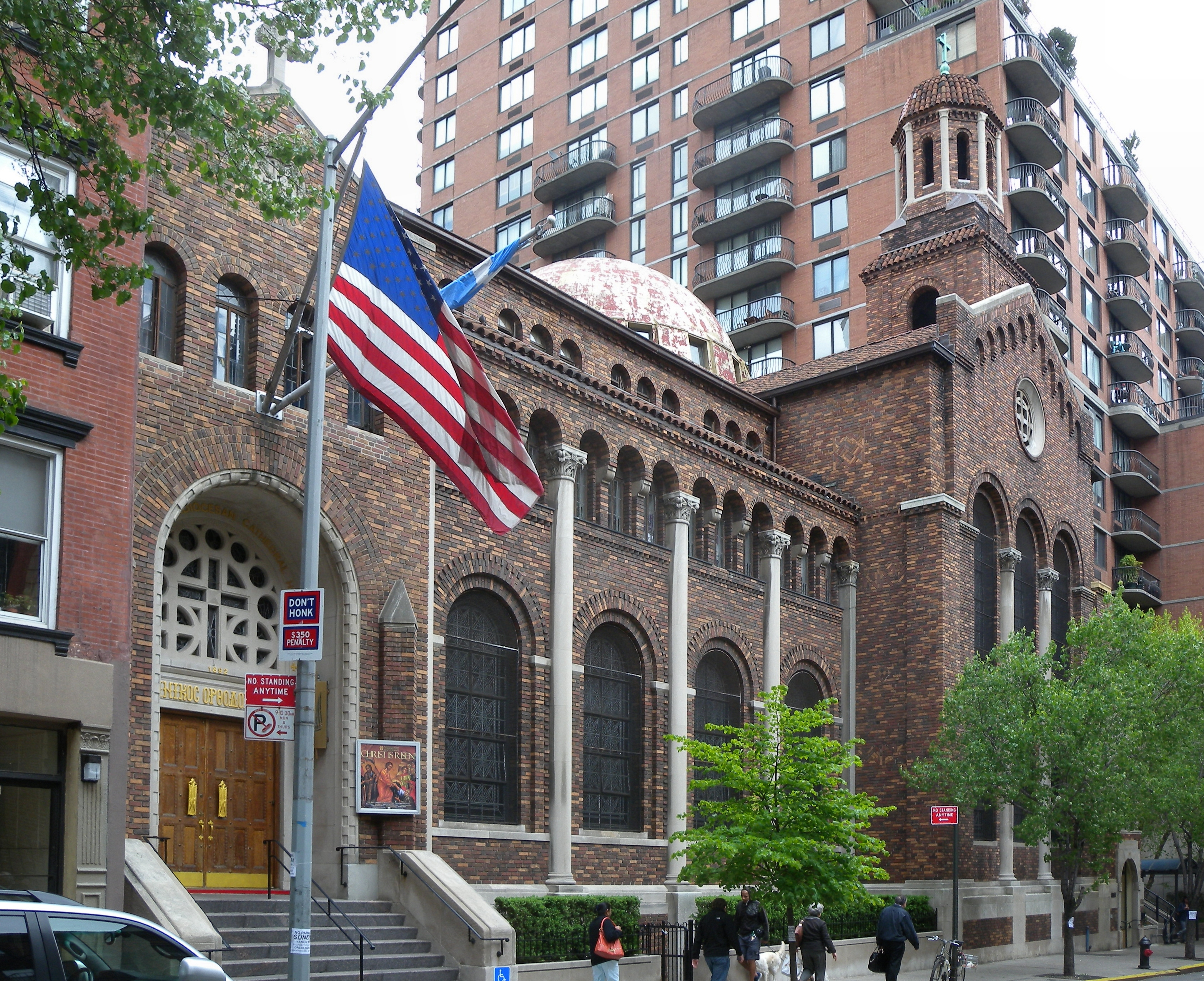 Looking east at Greek Orthodox Cathedral of the Holy Trinity.